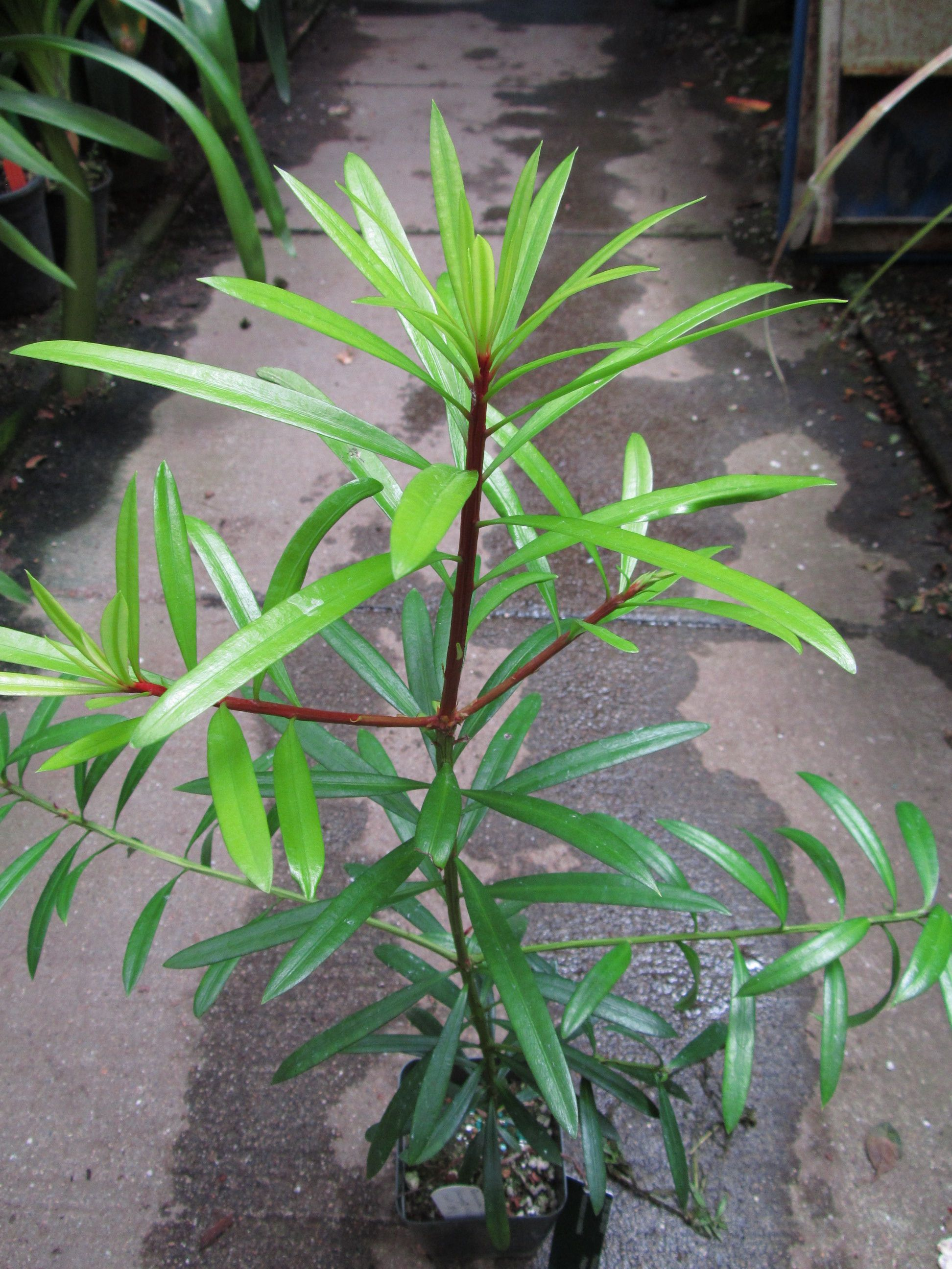 Podocarpus costali